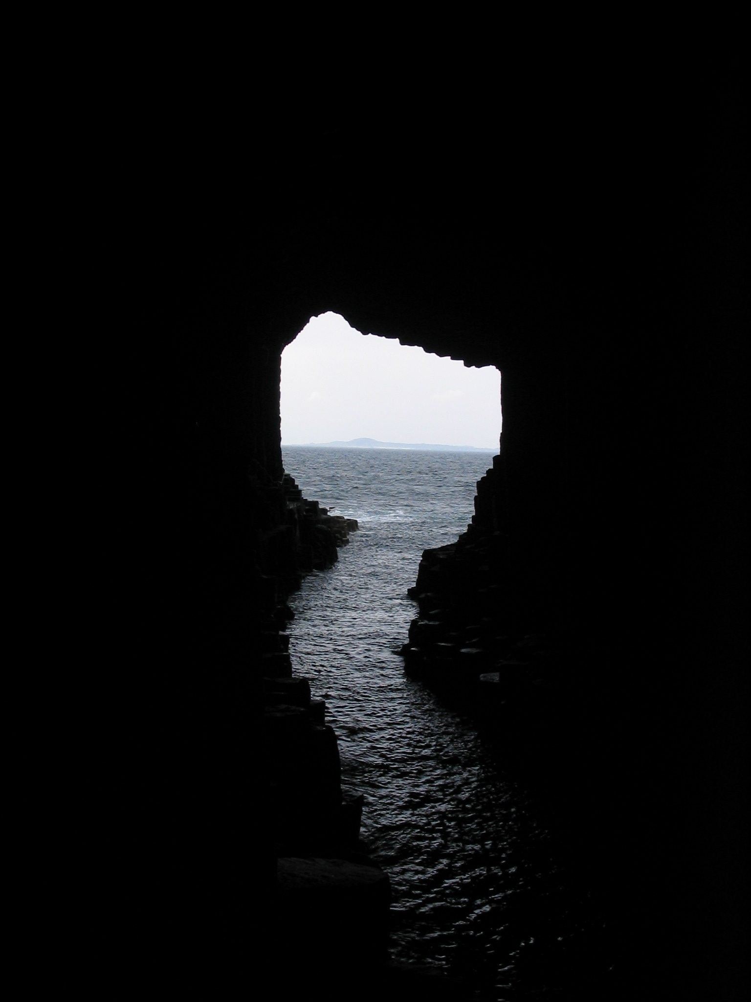 Internal view of Fingal's Cave on the island of Staffa, with a view across the open sea to the island of Iona, both are islands of the Inner Hebrides in Argyll and Bute, Scotland. Photo taken May 2008.